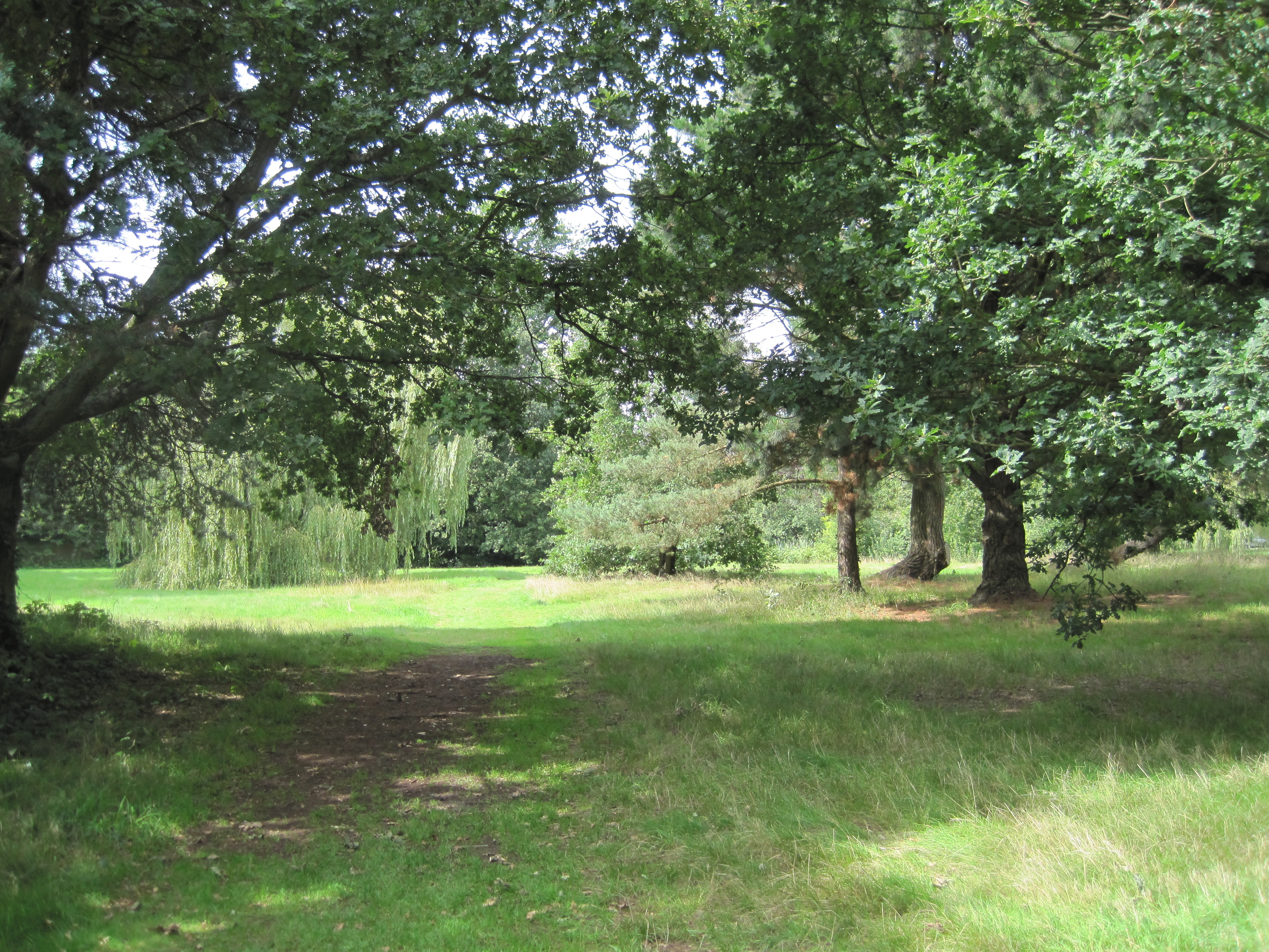 Hadley Green nature reserve, Monken Hadley, Barnet, London